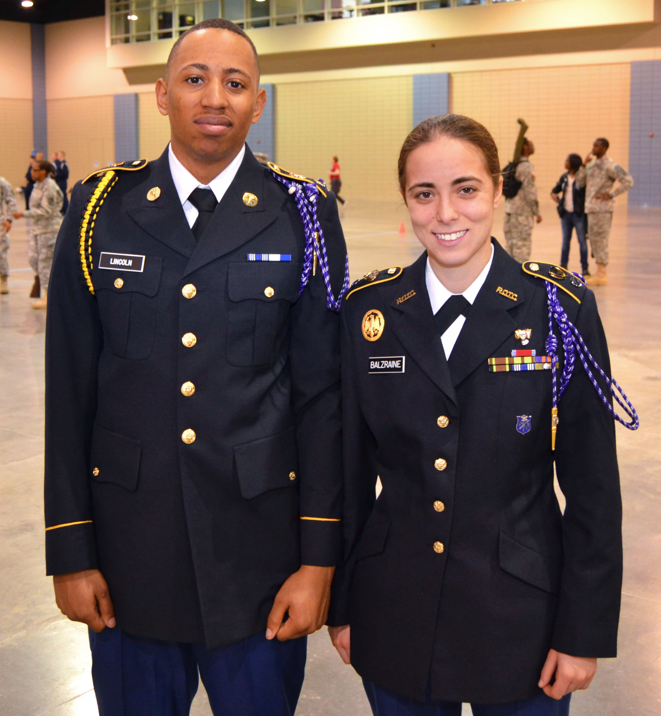 Pershing Riflemen during the Pershing Rifles National Convention and Drill Meet on 15 March 2014